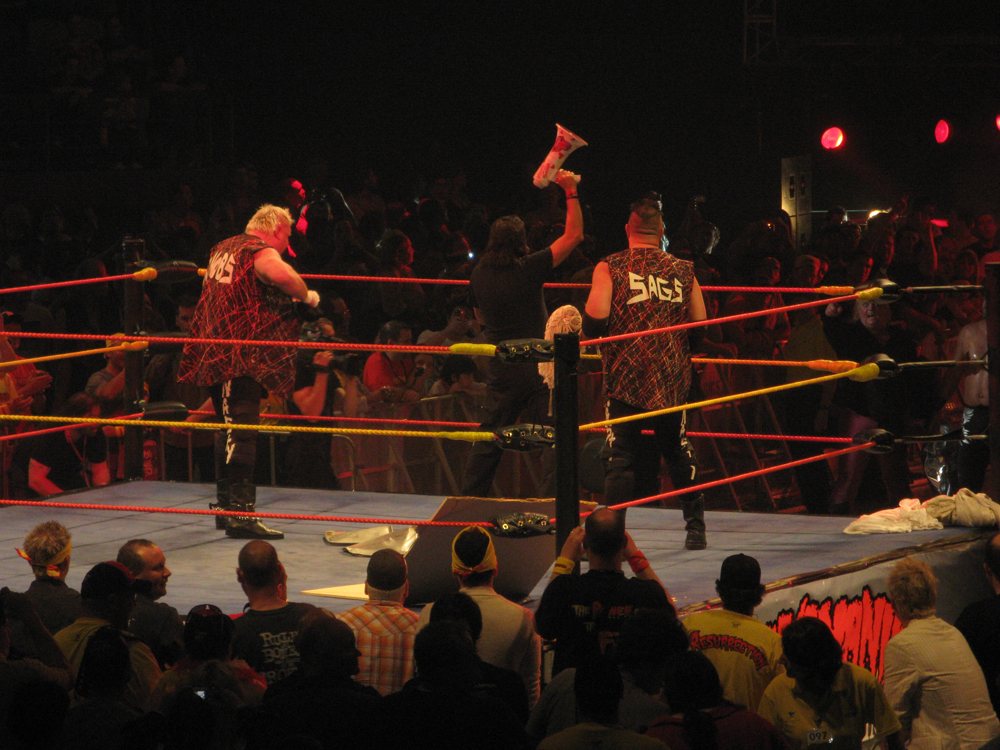 Hulkamania Tour @ Rod Laver Arena. Melbounre, AUS.